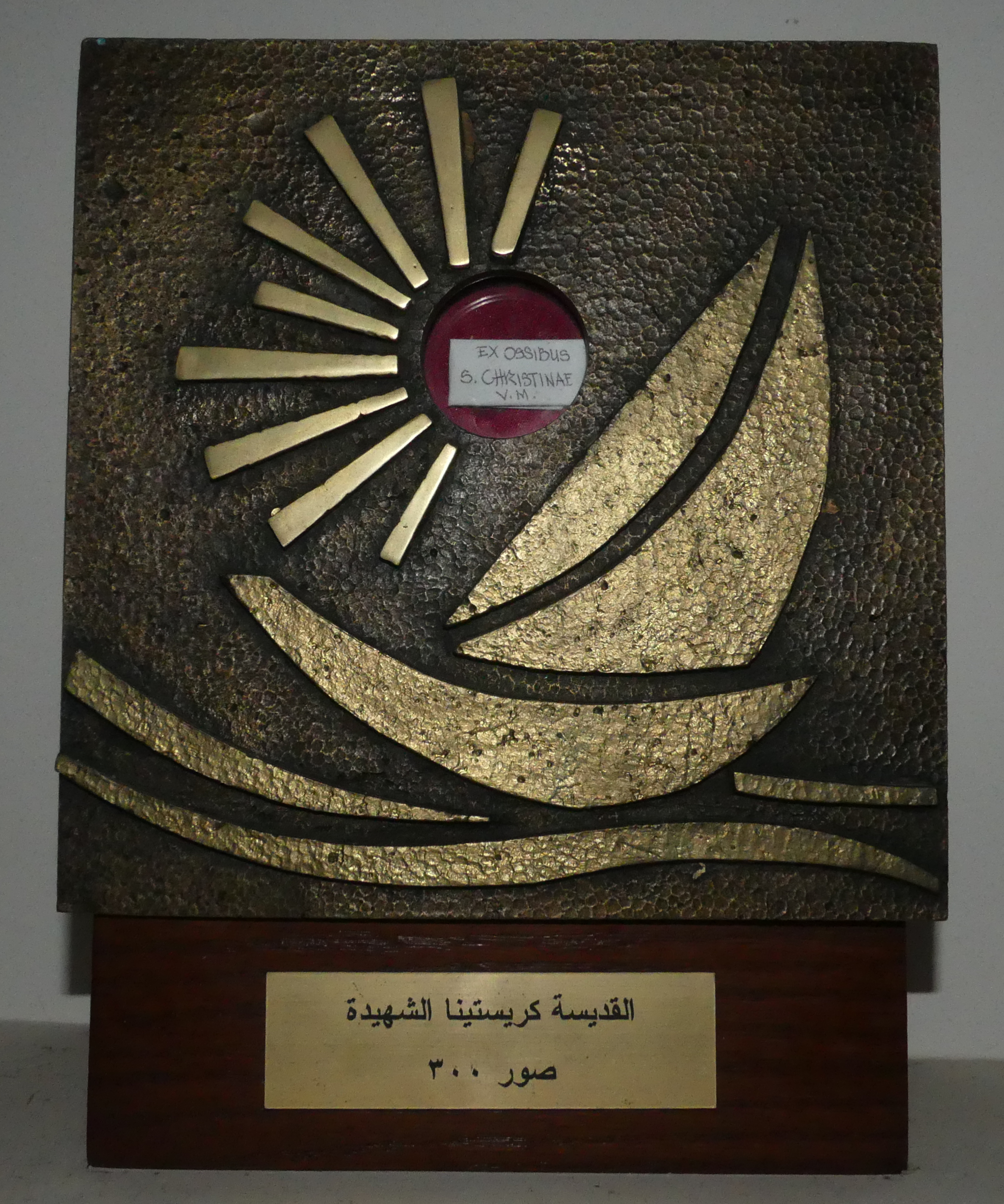 "EX OSSIBUS S. CHRISTINAE" - Relic of Saint Christina of Tyre (Saint Christina of Bolsena) at the "Sanctuary of Holy Martyrs" underneath the Maronite Cathedral "Our Lady of the Seas" in Tyre, Southern Lebanon